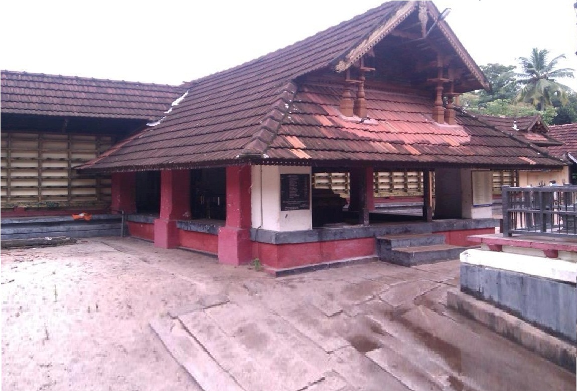 Kalarcode Mahadeva Temple, hanapuram, SanatAlleppey